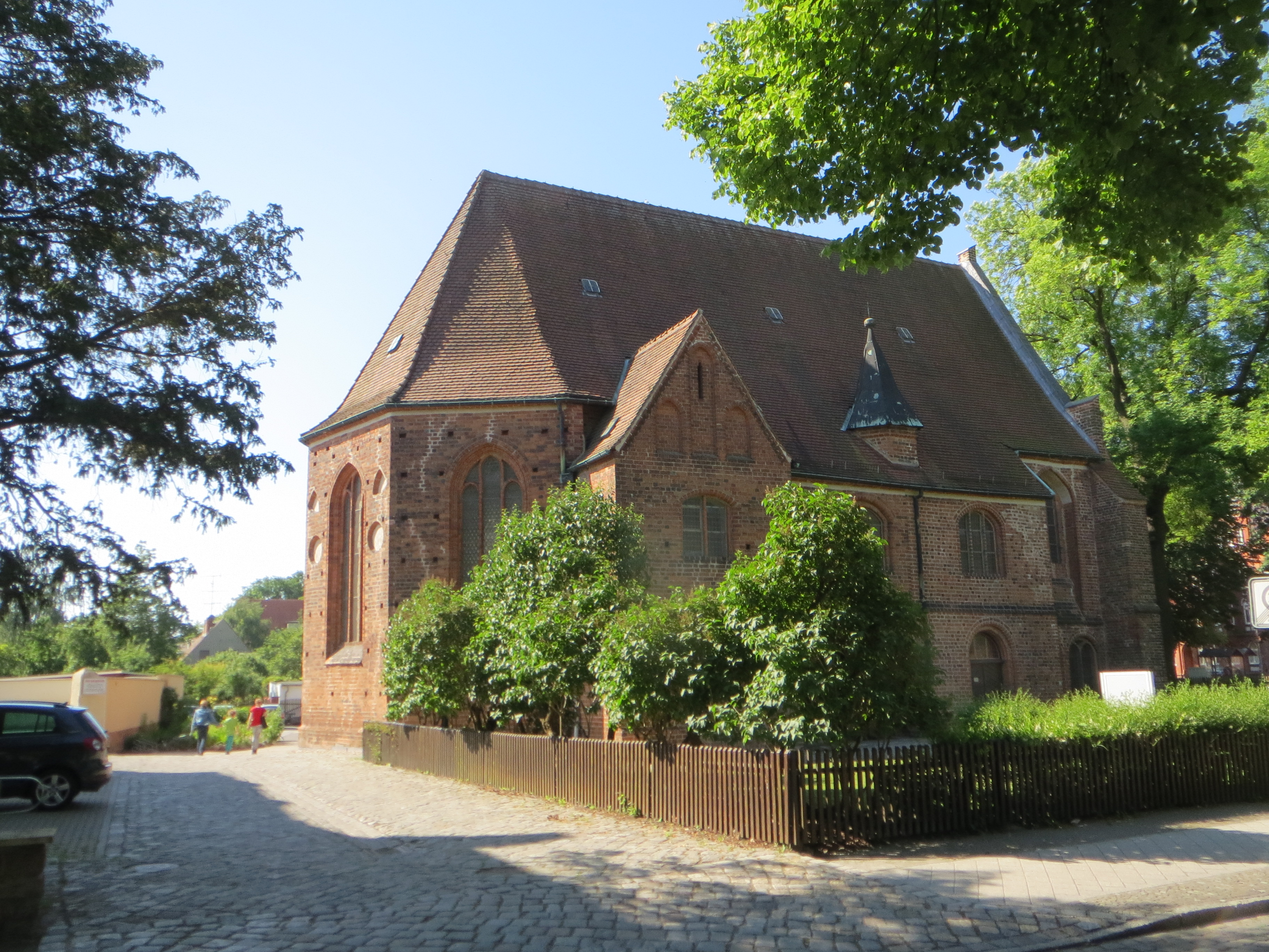 St. Anna in Stendal